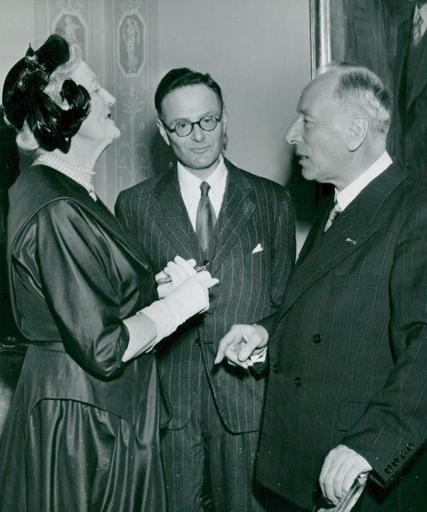 Reception for Nobel Prizes. Lady Churchill in conversation with Hans Krebs and Frits Zernike